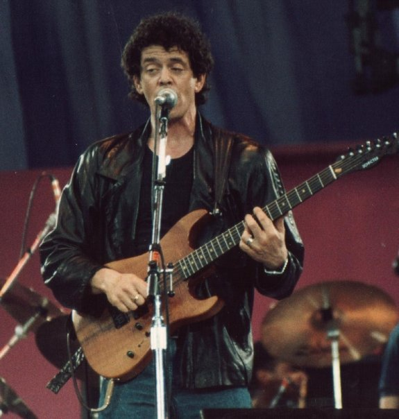 Lou Reed performing at the Conspiracy of Hope concert on June 15, 1986 in East Rutherford, NJ.